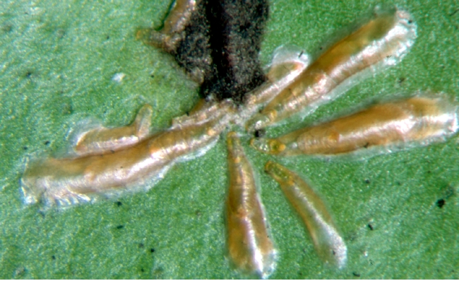 Adult females of Lepidosaphes gloverii (Rhynchota: Diaspididae)